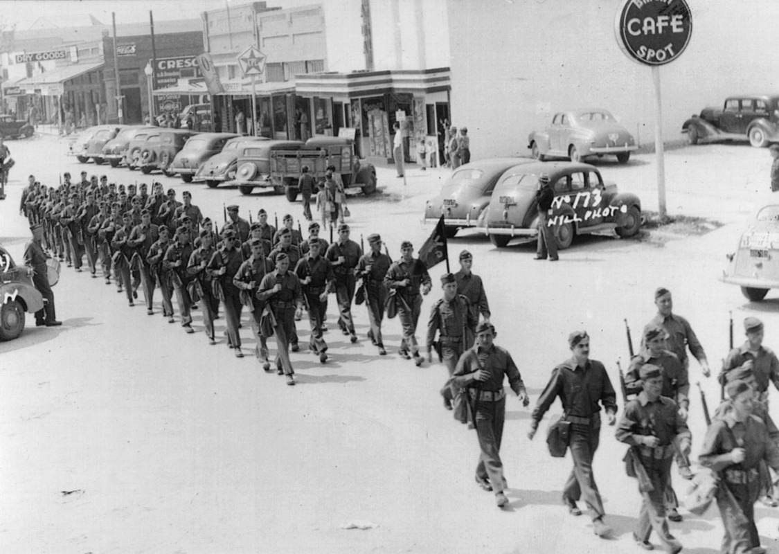 Training in TX (WW2)